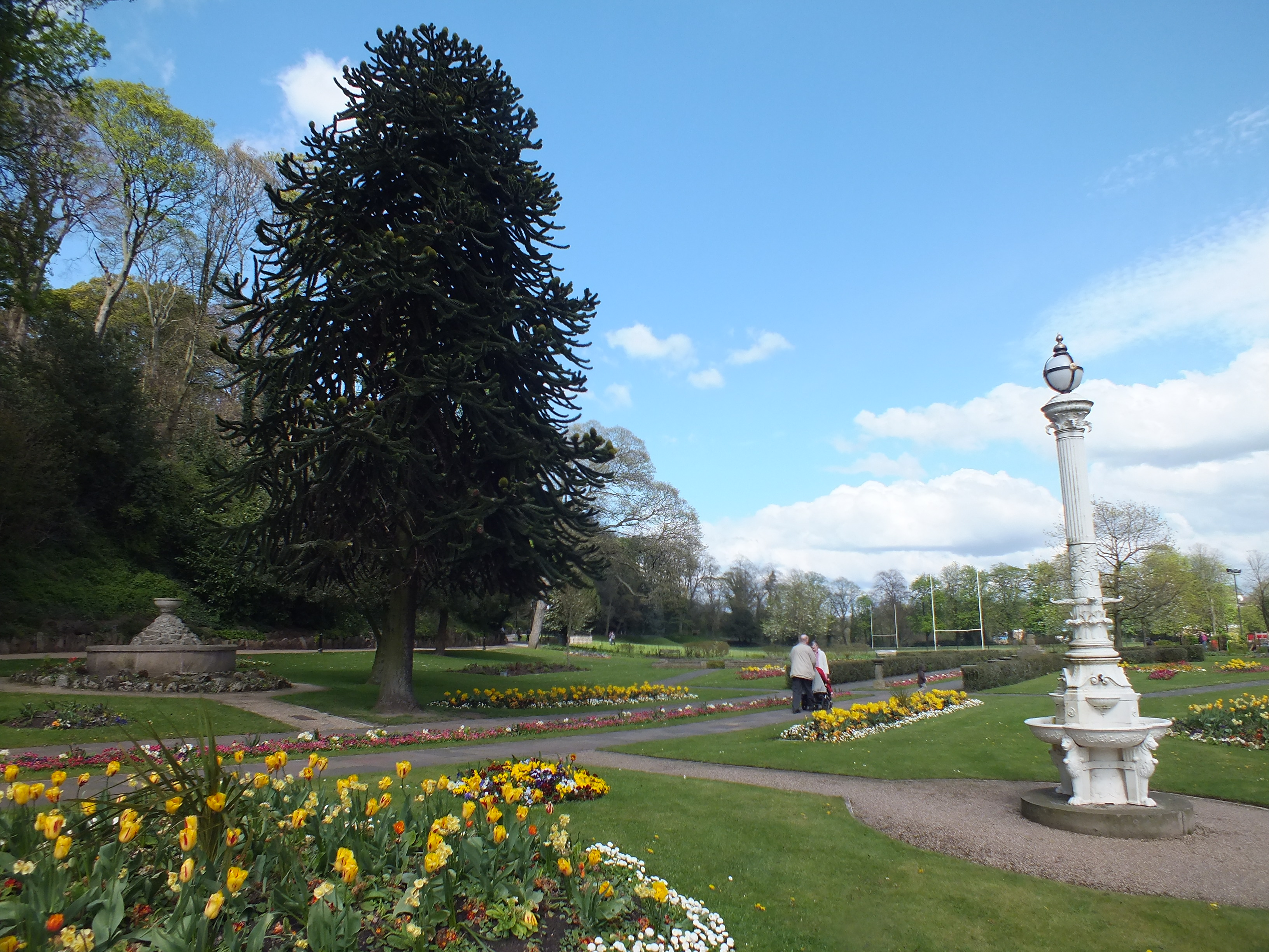 Congleton Park — Bear Town, East Cheshire. Congleton Park lies in a meander of the River Dane. Entry is from Mill Green, (where Old Mill used to be), Park Road, St Stephens and Buglawton. It contains the remnants of Town Wood, ancient woodland mentioned in the Domesday survey of 1086, and handed over to the town in 1583. Vista from Pavilion over formal gardens, with Monkey Puzzle Tree and drinking fountain.